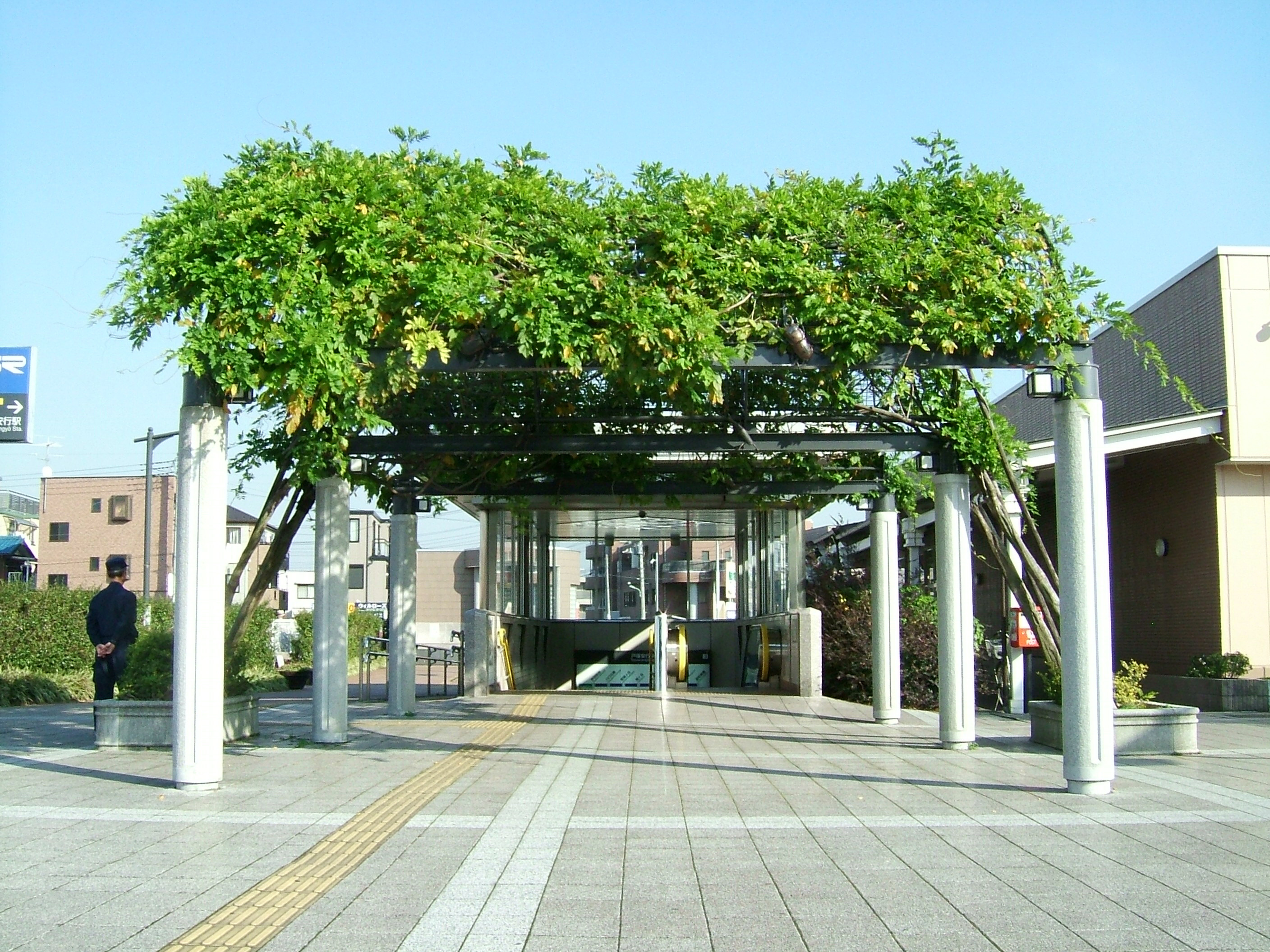 No. 3 entrance to Tozuka-angyo Station on the Saitama Rapid Railway Line